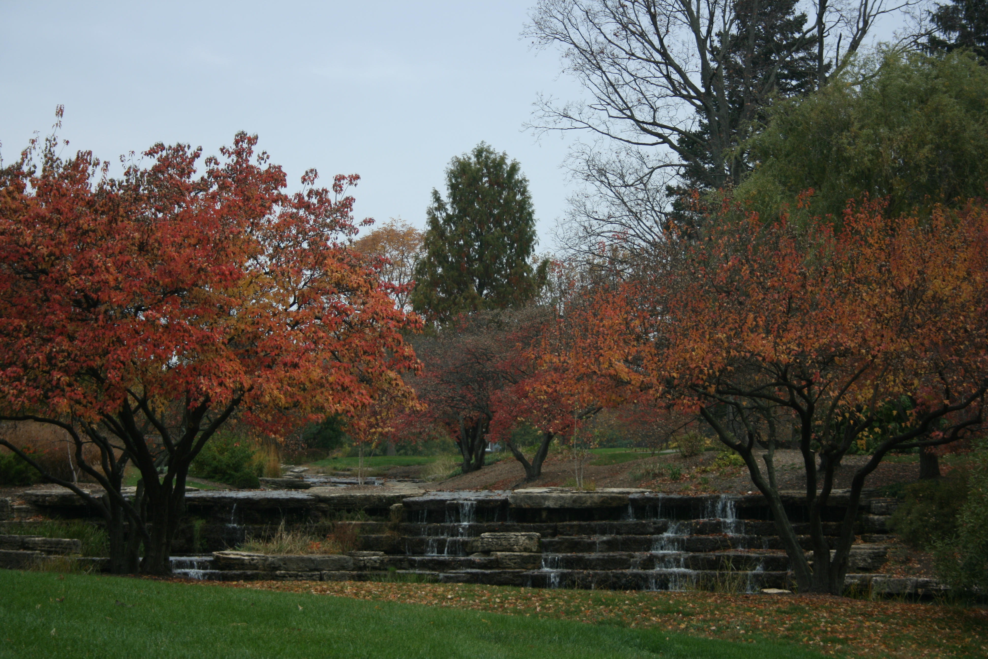 A series of steeped waterfalls, one of the more spectacular features of Franklin Park.